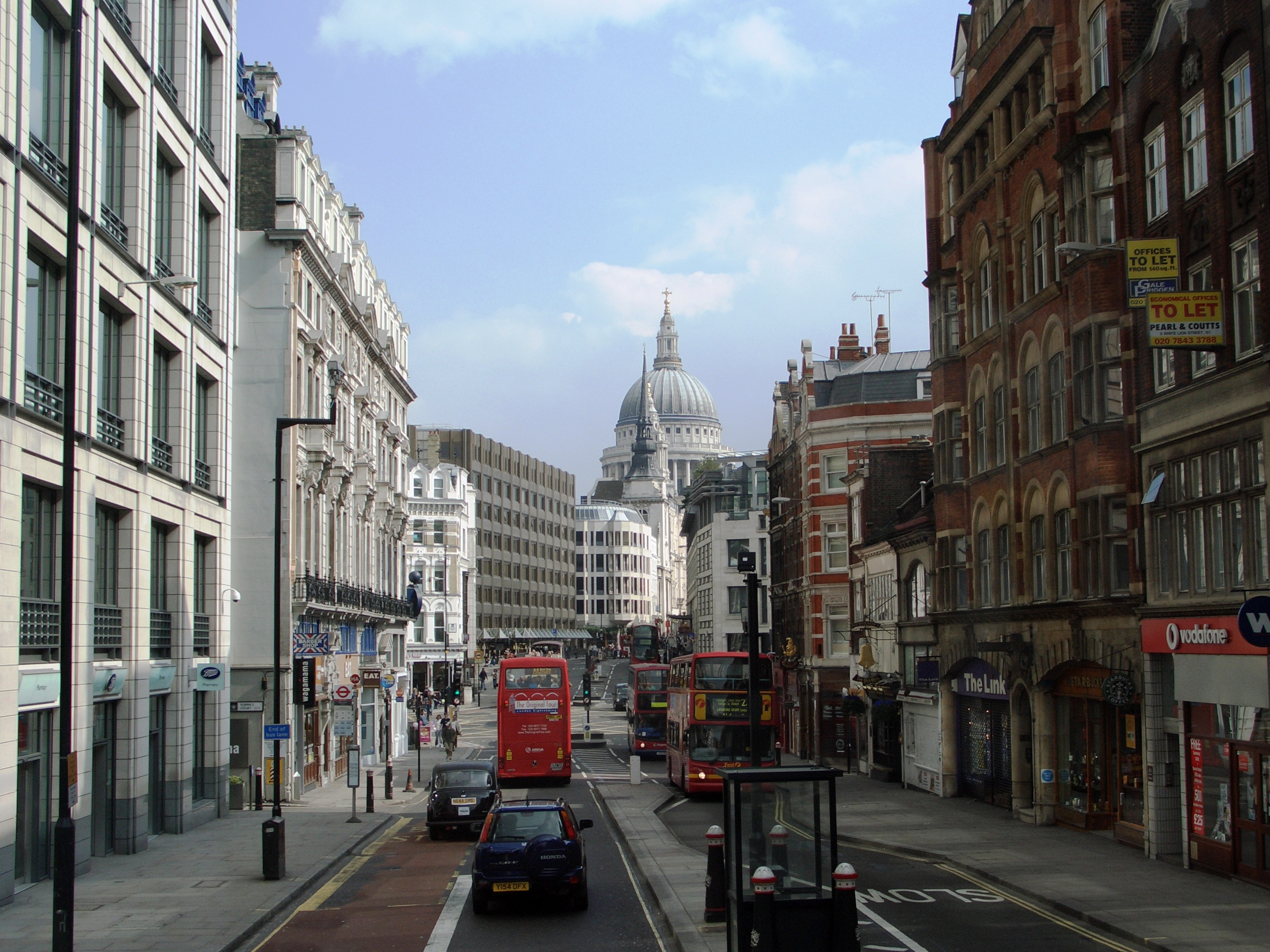 Londres - Fleet Street